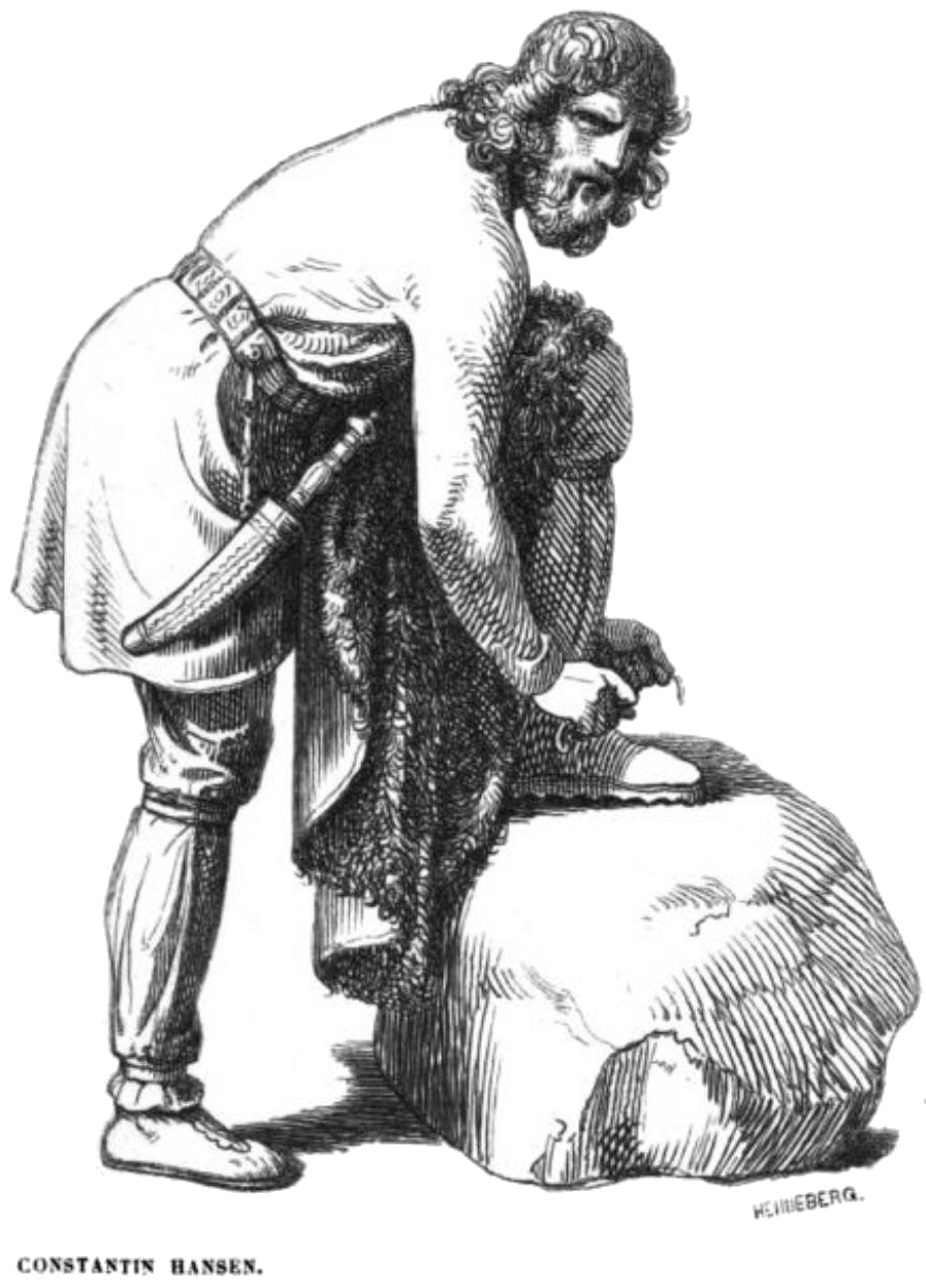 Vidar. The Norse god Víðarr straps his shoe on.